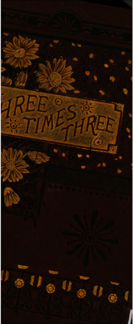 Partial book cover of, "Basil, Beatrice, Ethel, Or, Three-times-three, An Interesting Story of Real Life"